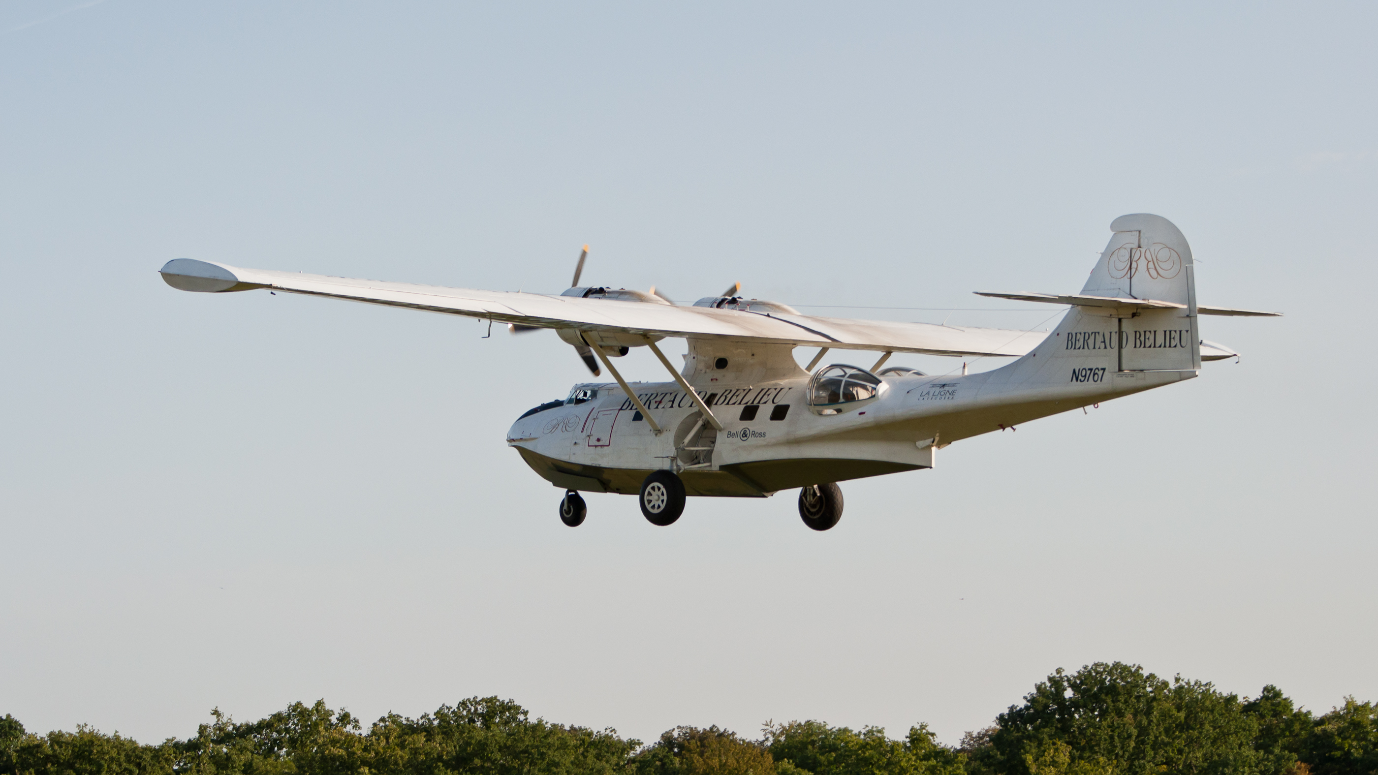 Consolidated PBY-5A „Catalina“ (N9767, cn 105) at "Oldtimer Fliegertreffen Hahnweide 2011" (EDST).